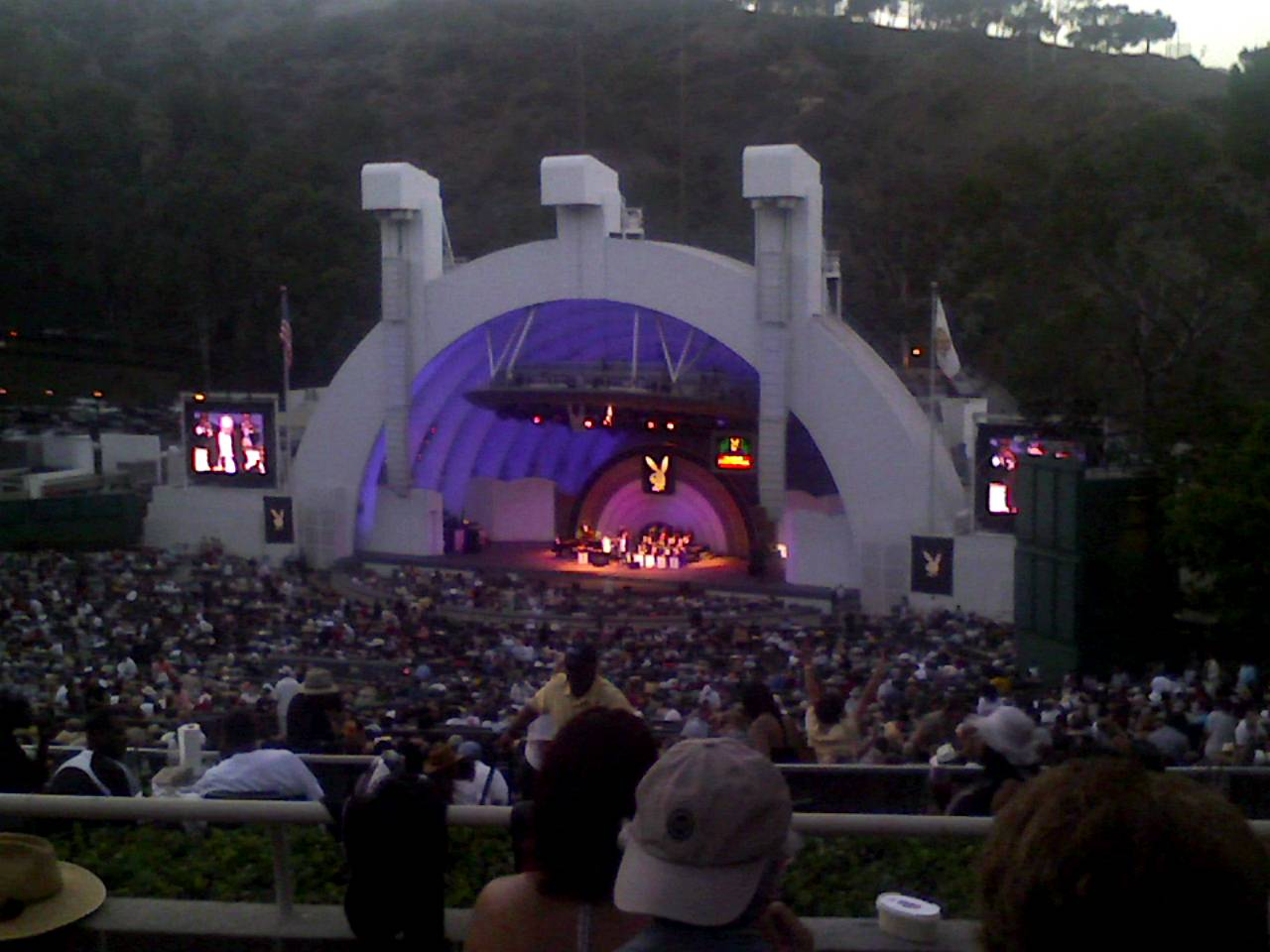 Playboy Jazz Festival 2007 at night